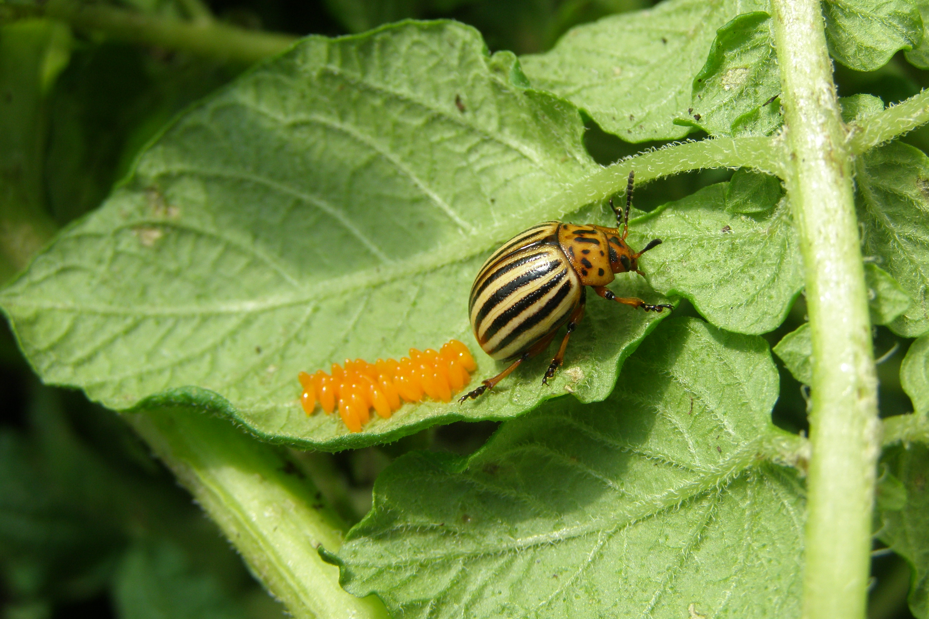 Imago of Colorado potato beetle on leaf with eggs. (Institute of Entomology of the Academy of Sciences of the Czech Republic)